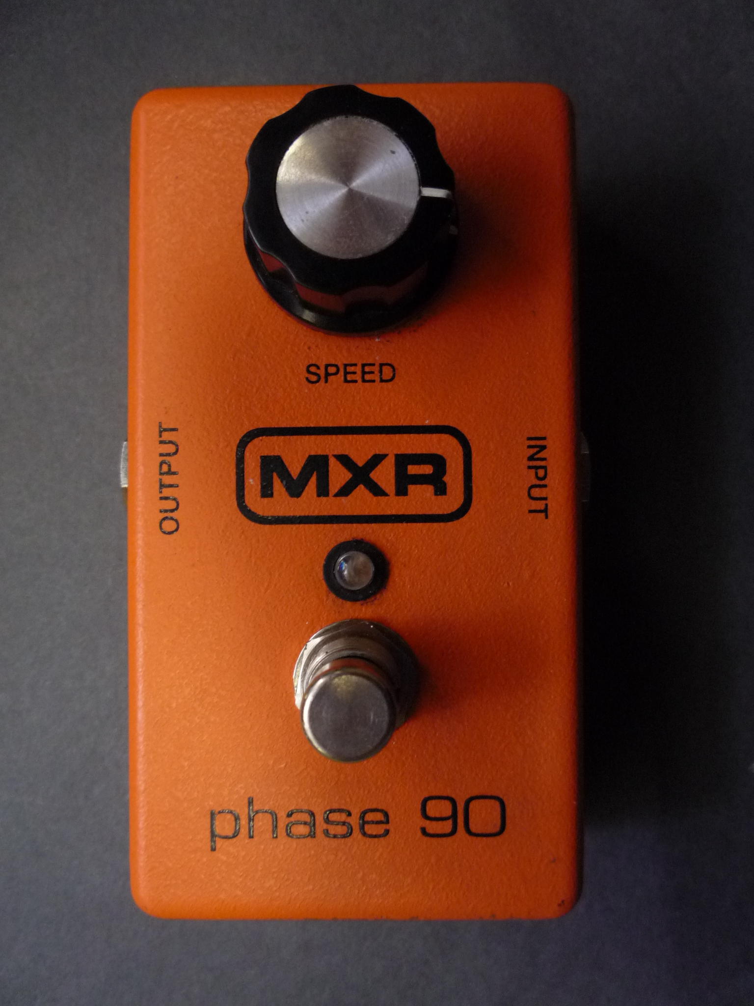 Modified Dunlop/MXR M-101 Phase 90.